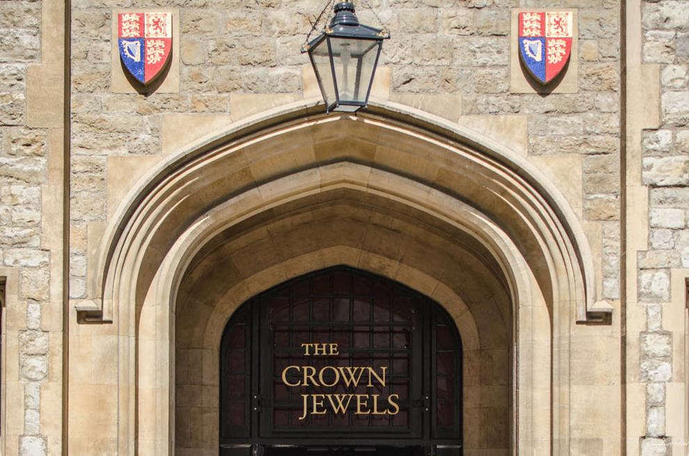 Sign above the entrance to the Jewel House, Tower of London, England.